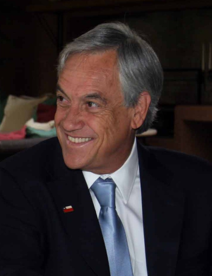 Sebastián Piñera, Chilean politician